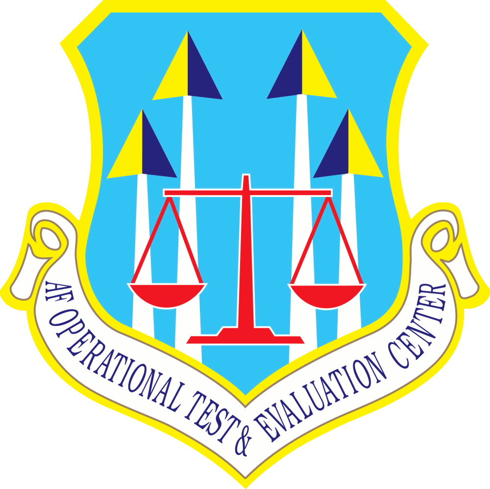 Emblem of the Air Force Operational Test and Evaluation Center, a Direct Reporting Unit of the United States Air Force